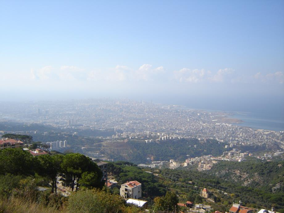 A view of Beirut.